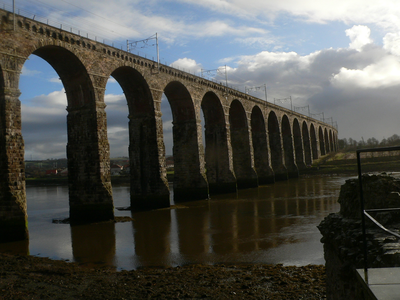 A view of the 28 span Royal Border Bridge, desined by Robert Stevenson and built in 1850, that carries the east coast mainline railway over the River Tweed at Berwick-upon-Tweed. This photograph was taken on 05 March 2005 from the footpath along the north bank of the river.